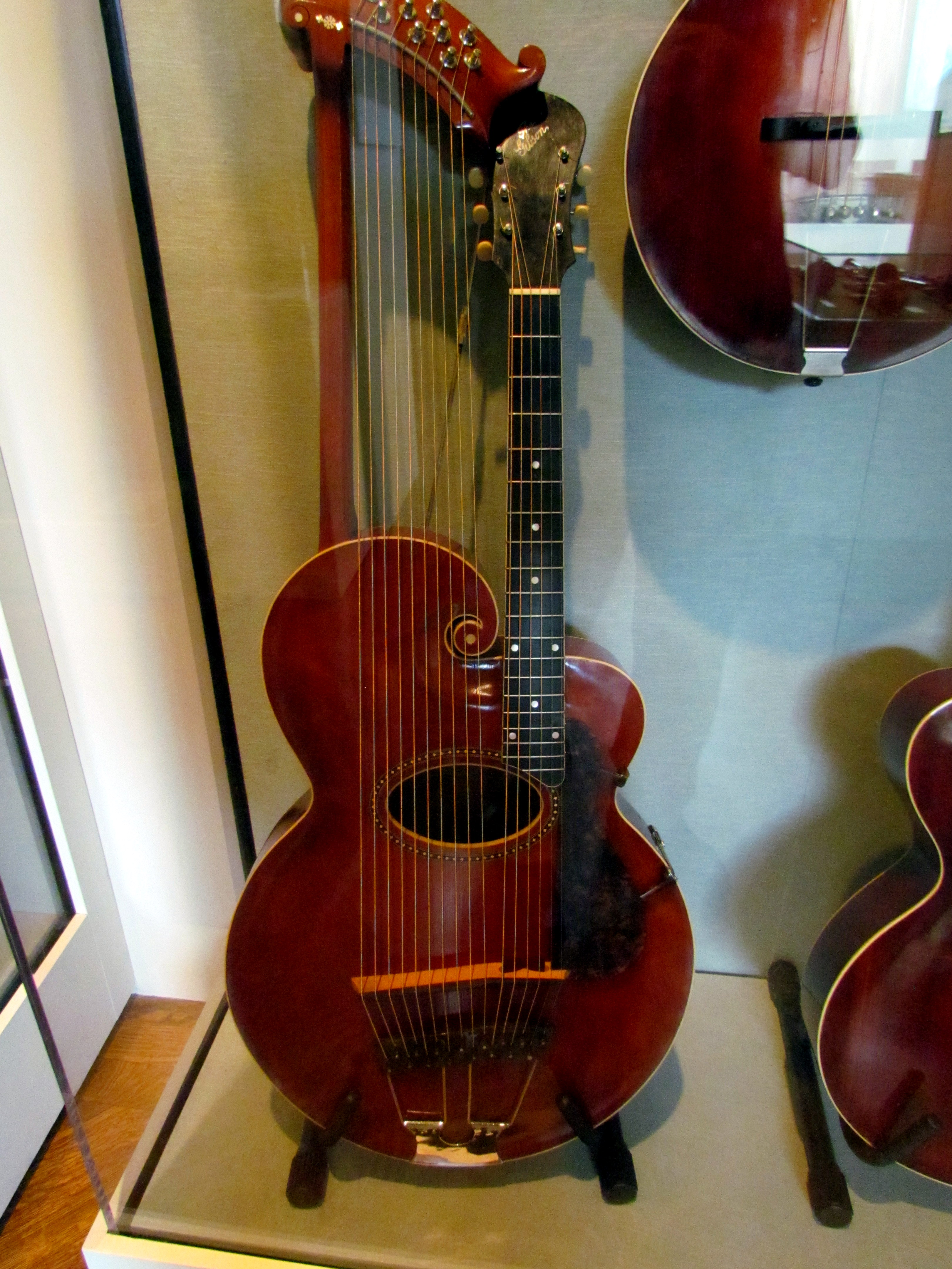 Gibson "Style U" harp guitar (1917. Serial Number: 26084) exhibited at the Metropolitan Museum of Art, NY.